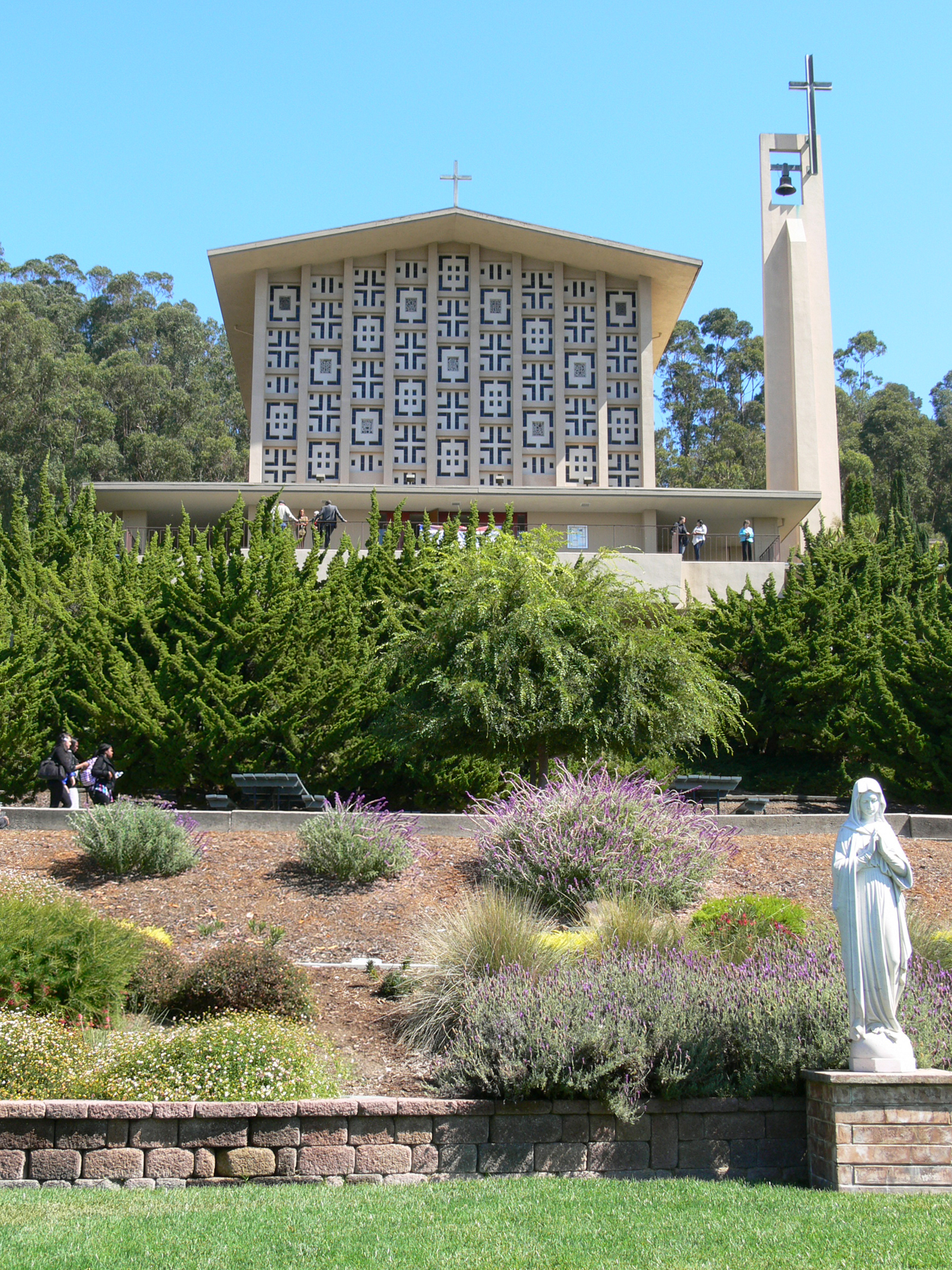 View of McLean Chapel in the center of the Holy Names University campus, Oakland, CA, at Convocation, Fall 2010.